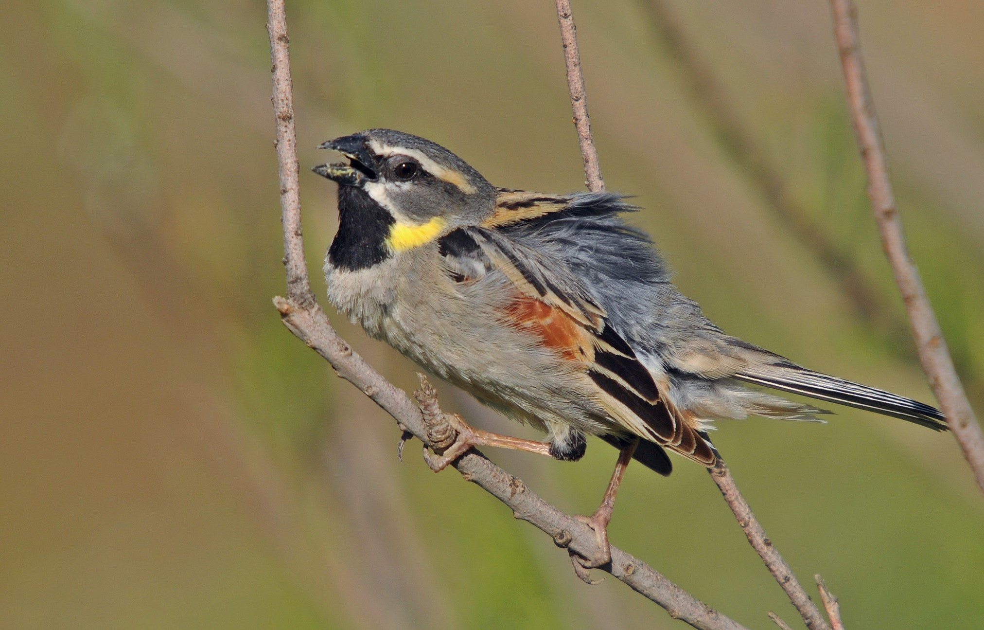 A male Dead Sea Sparrow Kurdî: Beytike biçûk, beytika nav dirrikan